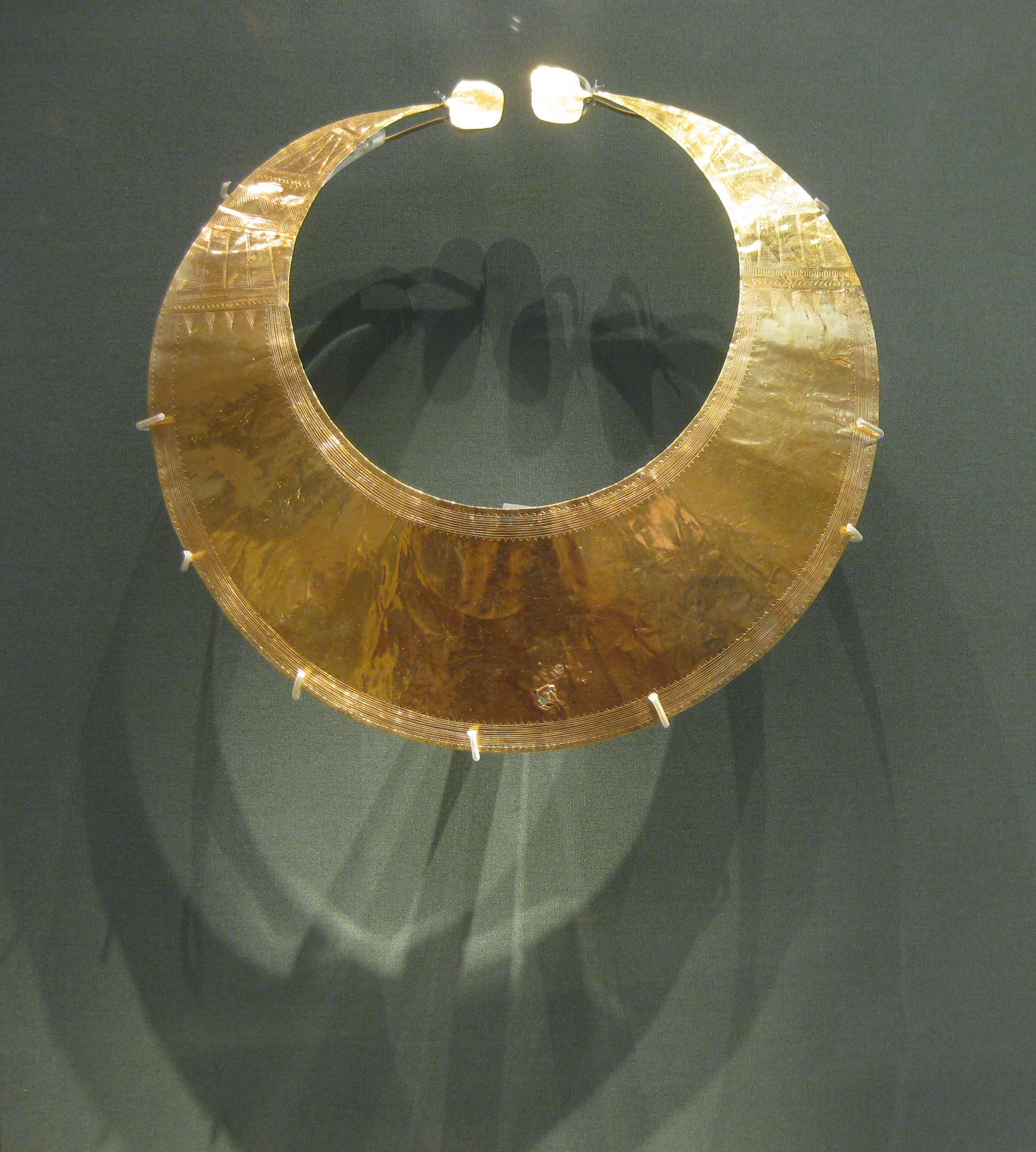 Photograph of a gold lunula found in Blessington, Co. Wicklow, Ireland and currently in the collection of the British Museum (Catalogue reference WG.31). The lunula is estimated to date from 2400 BCE to 2000 BCE (Copper Age/Bronze Age)